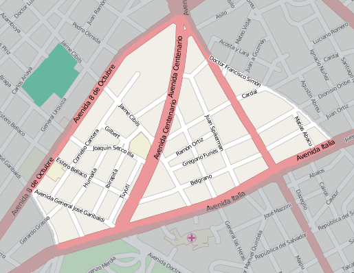 Street map of La Blanqueada, Montevideo, exported from OpenStreetMap. I added shading to delimit the barrio. This map may be incomplete, and may contain errors. Don't rely solely on it for navigation.